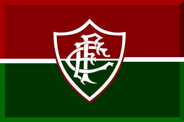 Flag of Brazilian Fluminense Football Club.